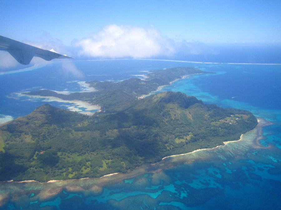 Aerial View of Mangareva (Gambier Islands), French Polynesia